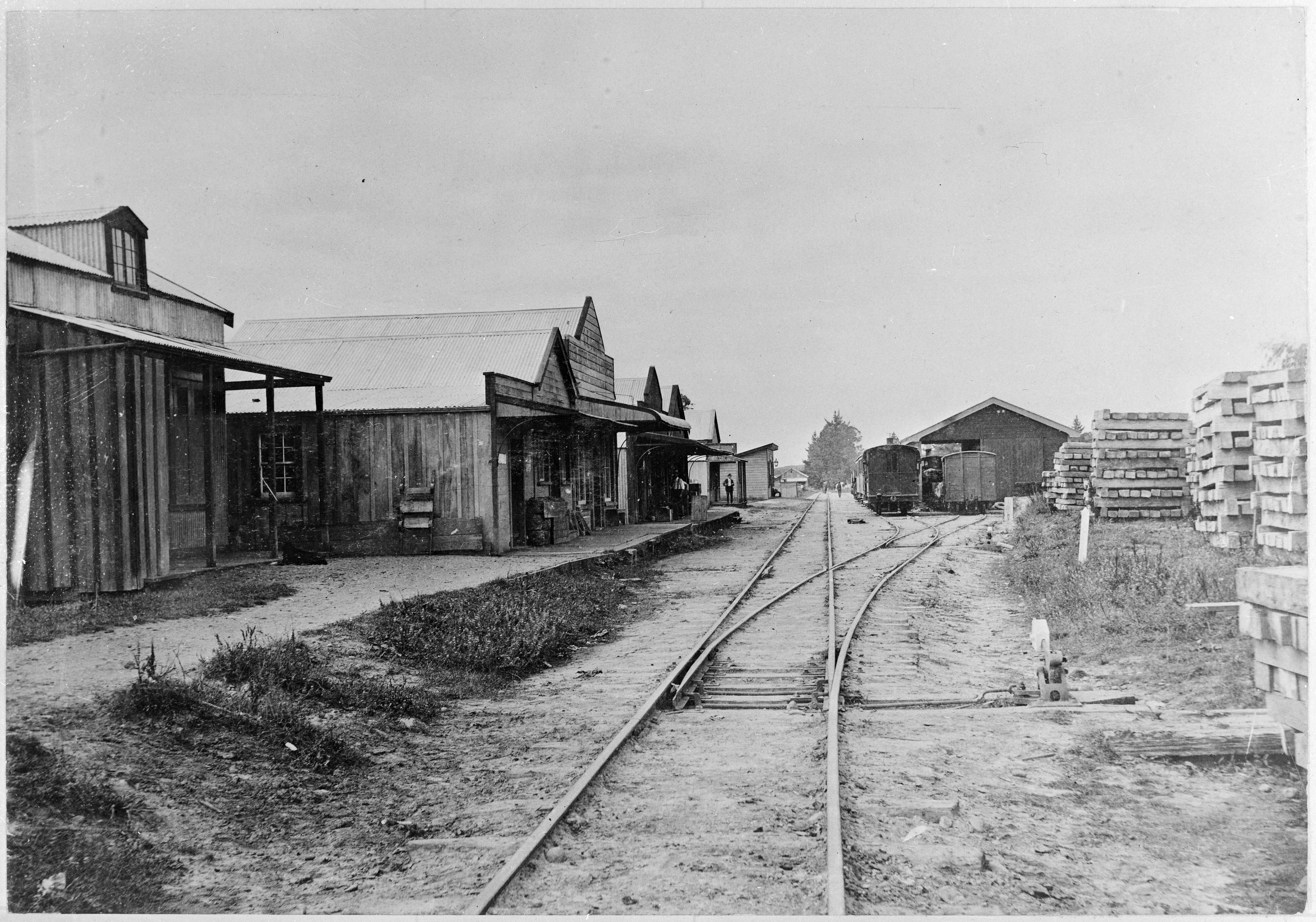 View looking towards the Kaihu Railway Station, Northland region, with a narrow road to the left of the railway line, and stacks of sawn timber to the right of the line. Railways rolling stock is on a siding, centre right. Man standing to left of the tracks is possibly Peter Batistich. He is standing outside the family home, which also housed a pool room and boarding house. Photograph taken by Albert Percy Godber, 1912. This image is a film negative copy taken from the print in Godber Album Vol 110, p 181 (PA1-q-103).